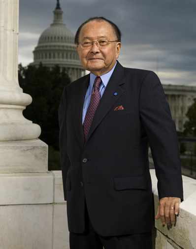 Daniel Inouye, senator from Hawaii